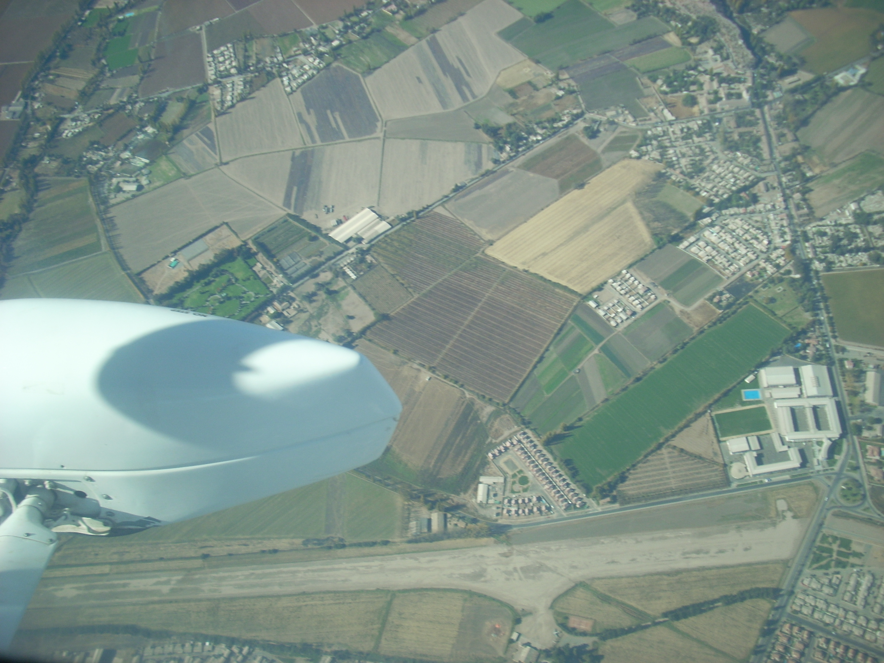 Overflying San Felipe - Victor Lafón airdrome (SCSF) in a Cessna 172.